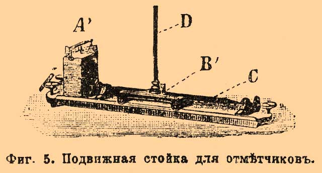 Illustration from Brockhaus and Efron Encyclopedic Dictionary (1890—1907)